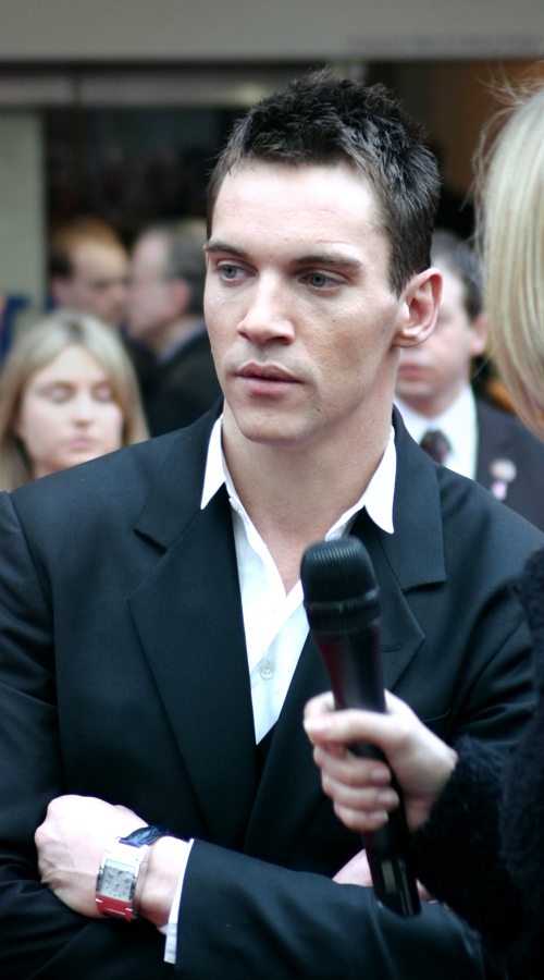 Jonathan Rhys Meyers at the Mission: Impossible 3 British premiere